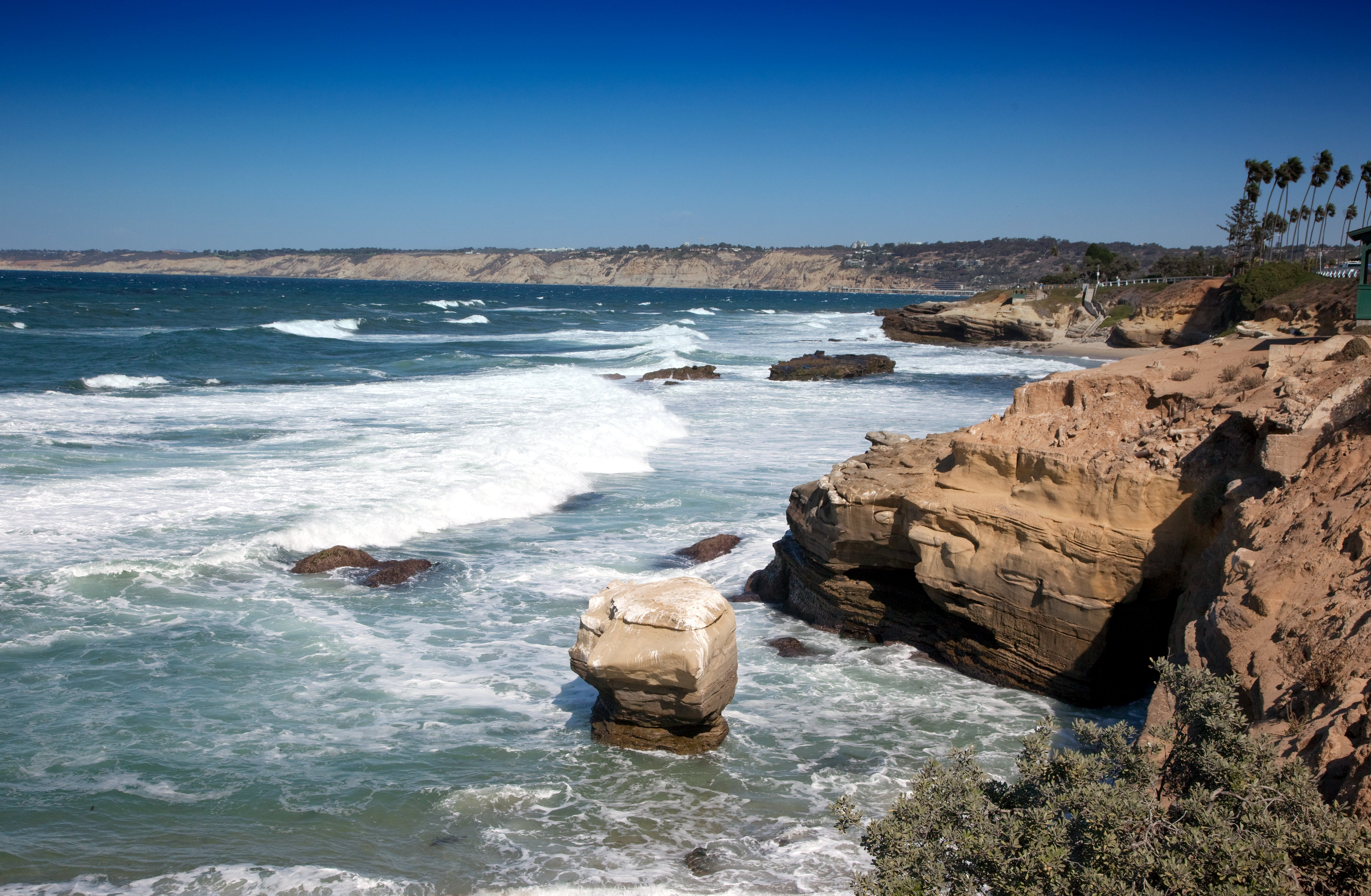 Scenic view of shore, La Jolla, California